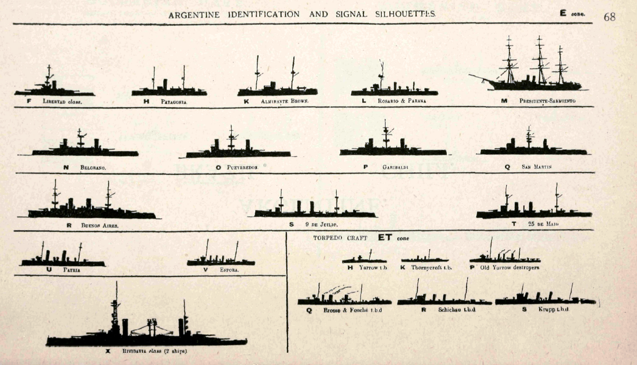 Warship silhouettes of the Argentine Navy, 1914